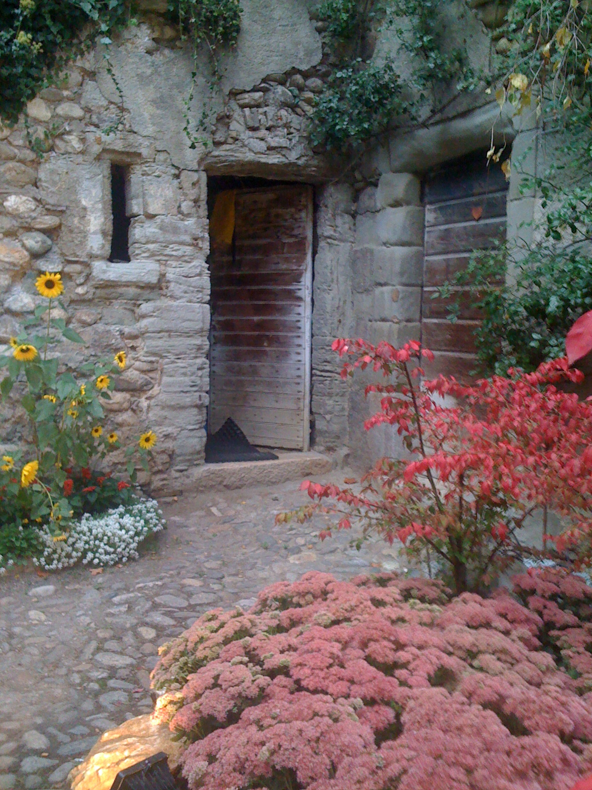 Flowers in Duillier, Vaud, Switzerland